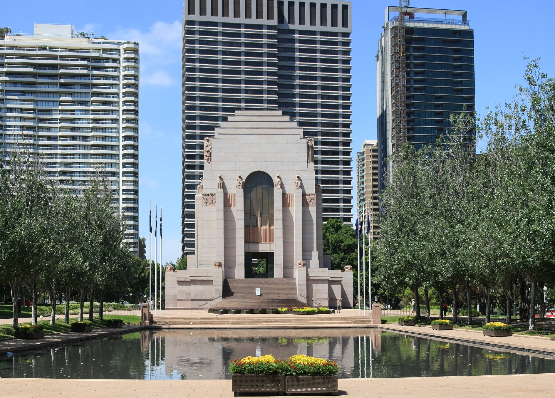 The War memorial in Hyde Park Sydney